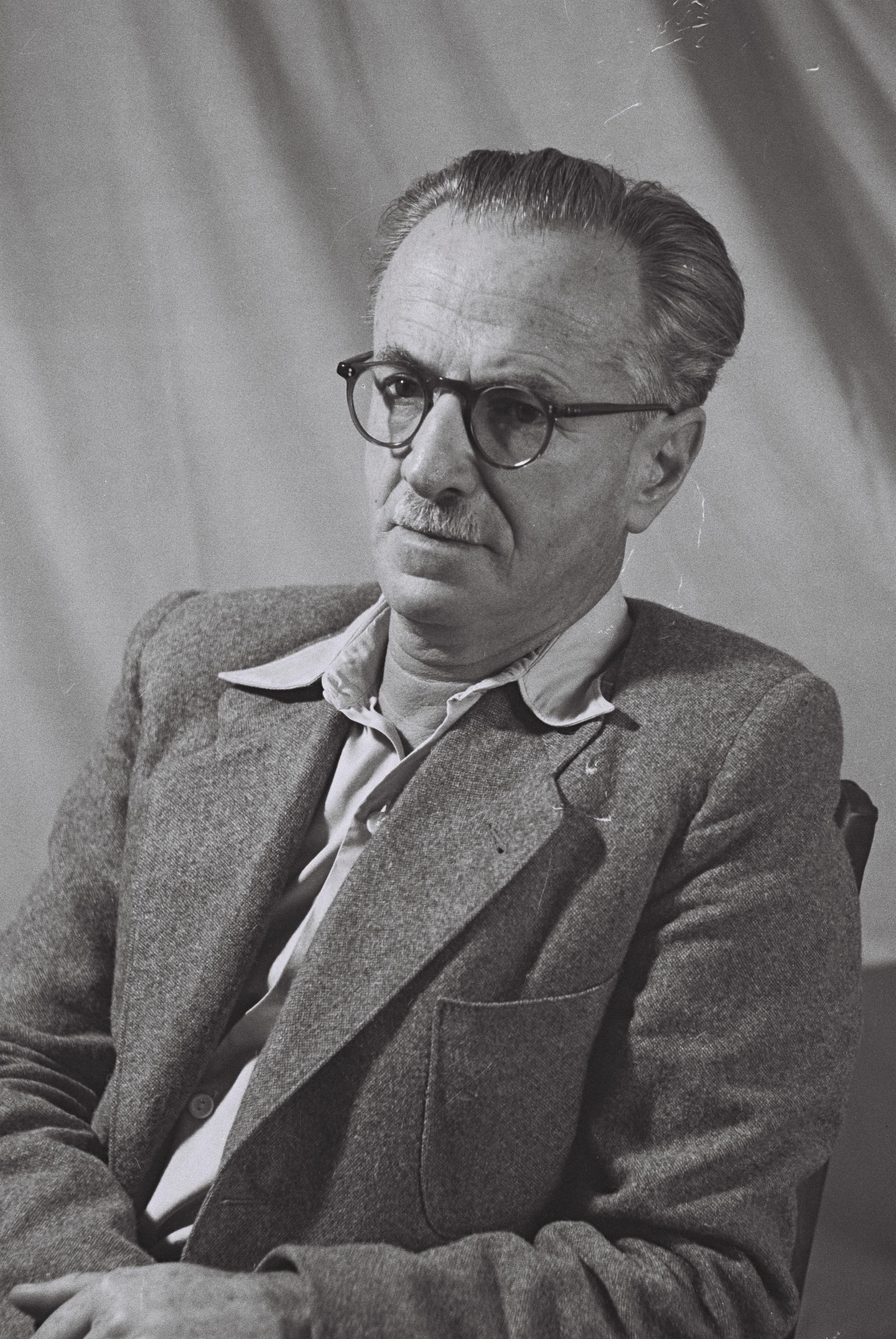 Portrait of Israel Bar-Yehuda, Ahdut Avoda Party.